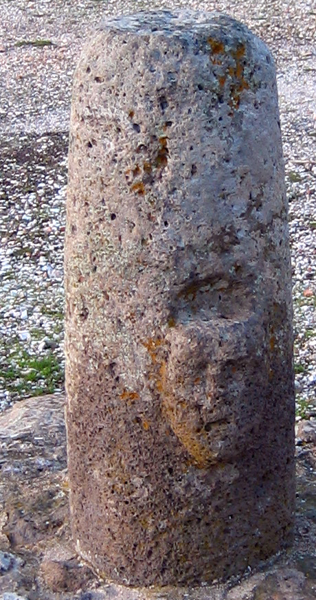 Baetylus Golgo baunei sardinia